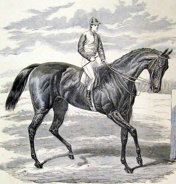 Engraving of the British racehorse Petrarch from the Illustrated London News 1876. By an unknown staff artist.